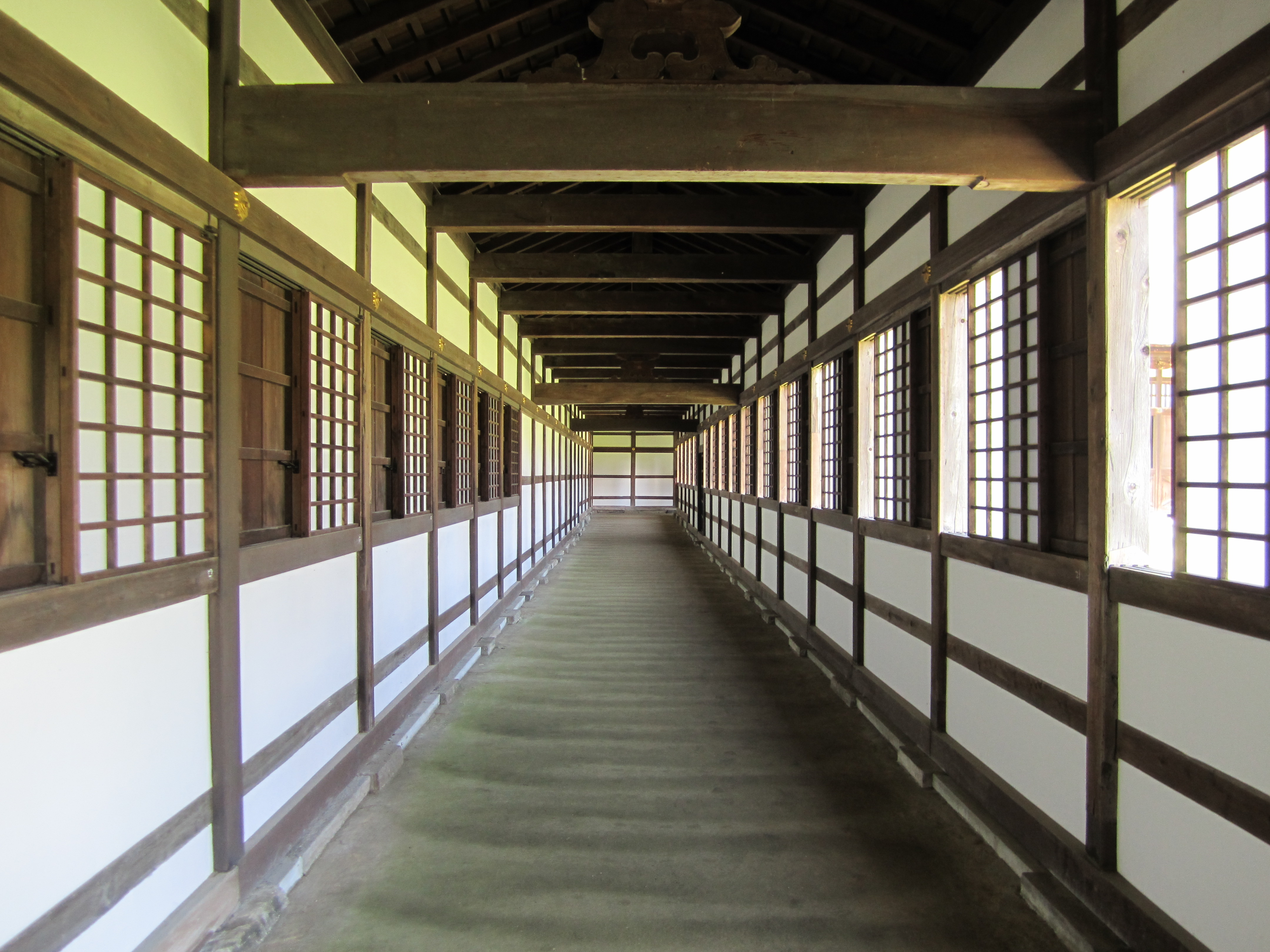 Kairo (cloister), Zuiryuji Temple